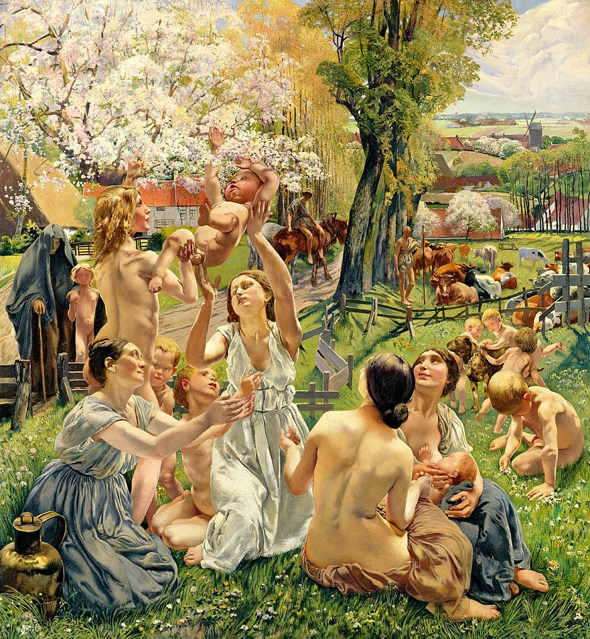 The morning (left panel of a triptych)